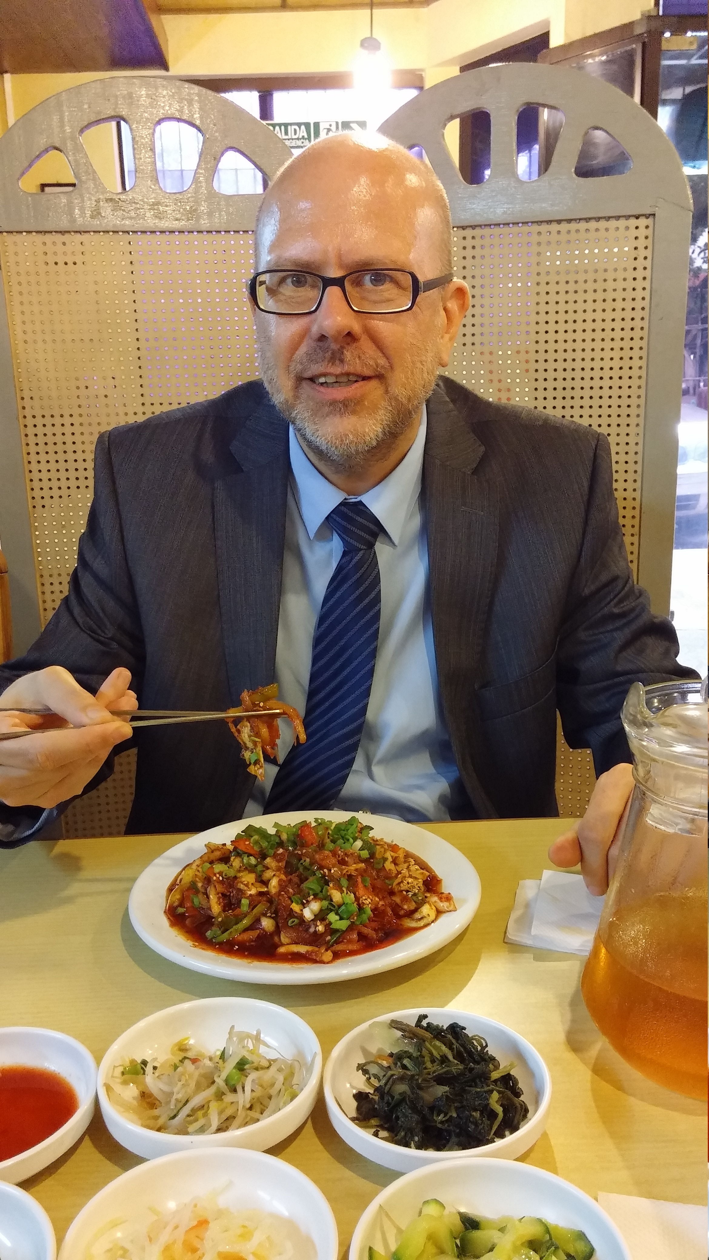 Glen Lee Roberts enjoying some Korean food in Asuncion, Paraguay after applying for an ISBN.